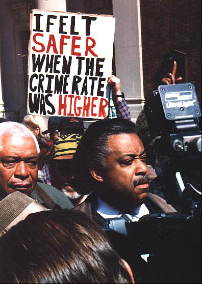 This photo was taken in 1999 of Rev. Al Sharpton outside of the NYC Police Dept. Headquarters.